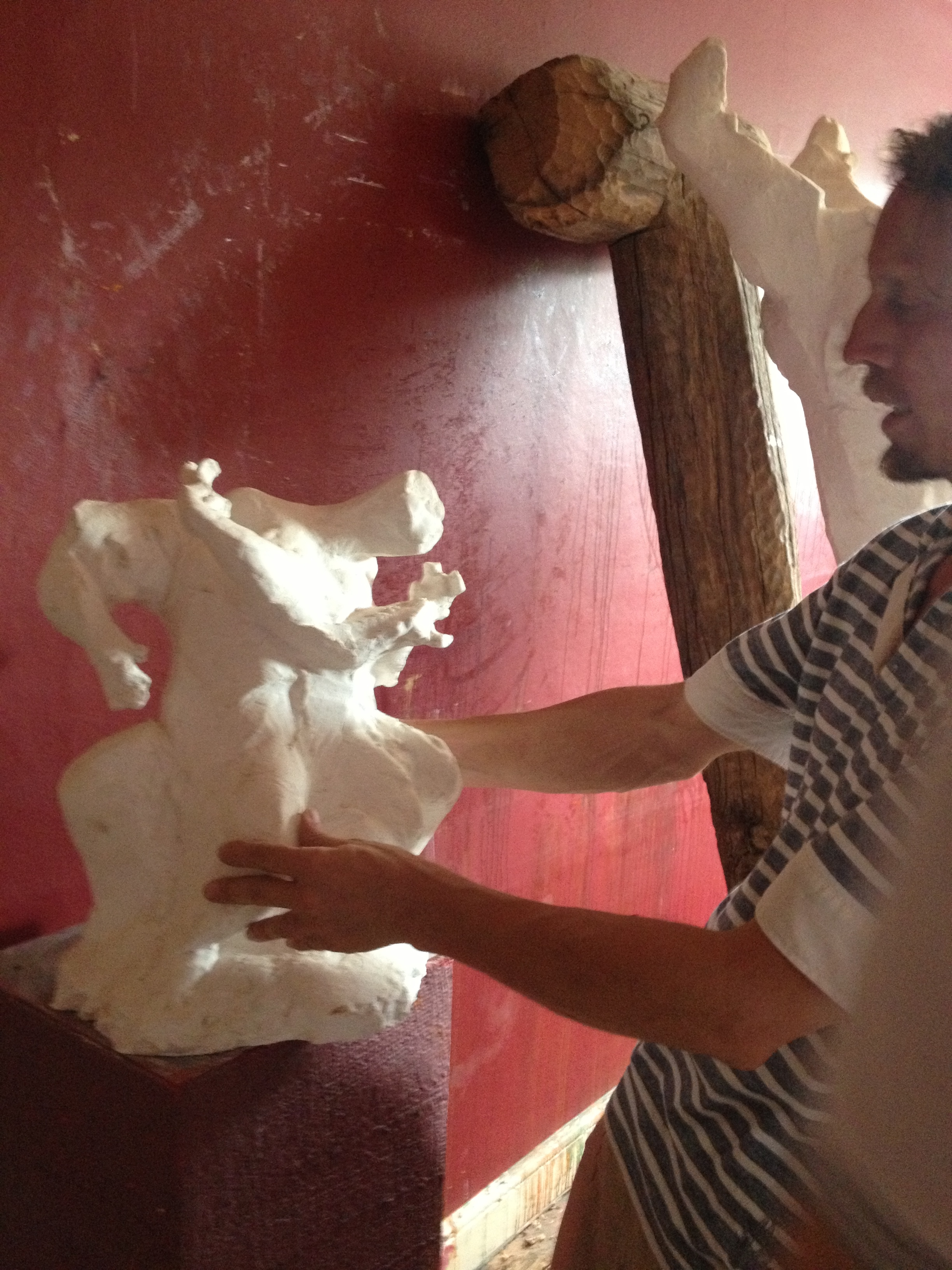 Ivan Klapez in Studio 2013